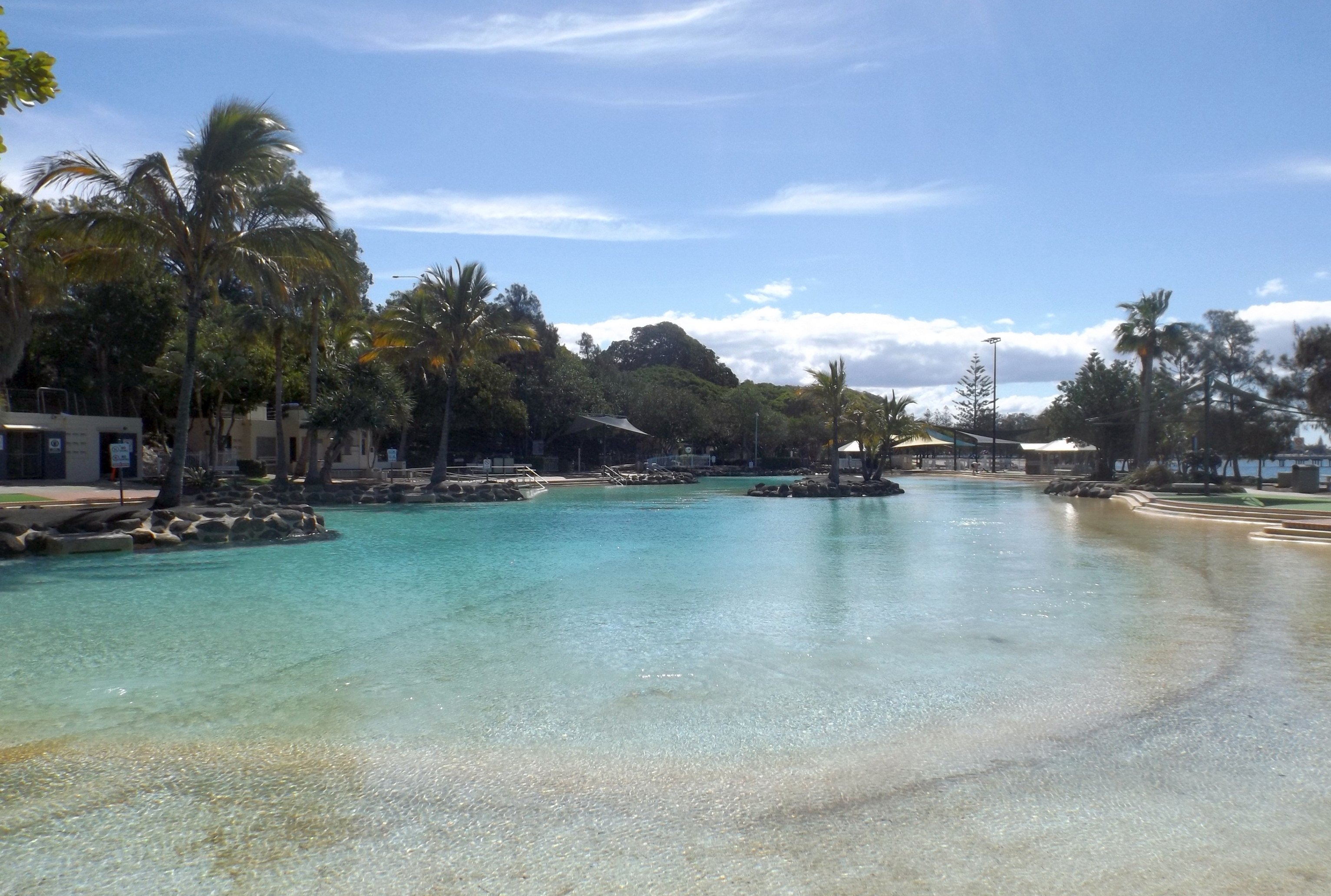 Photo of Redcliffe Lagoon at Redcliffe, Moreton Bay Region, Queensland, Australia.